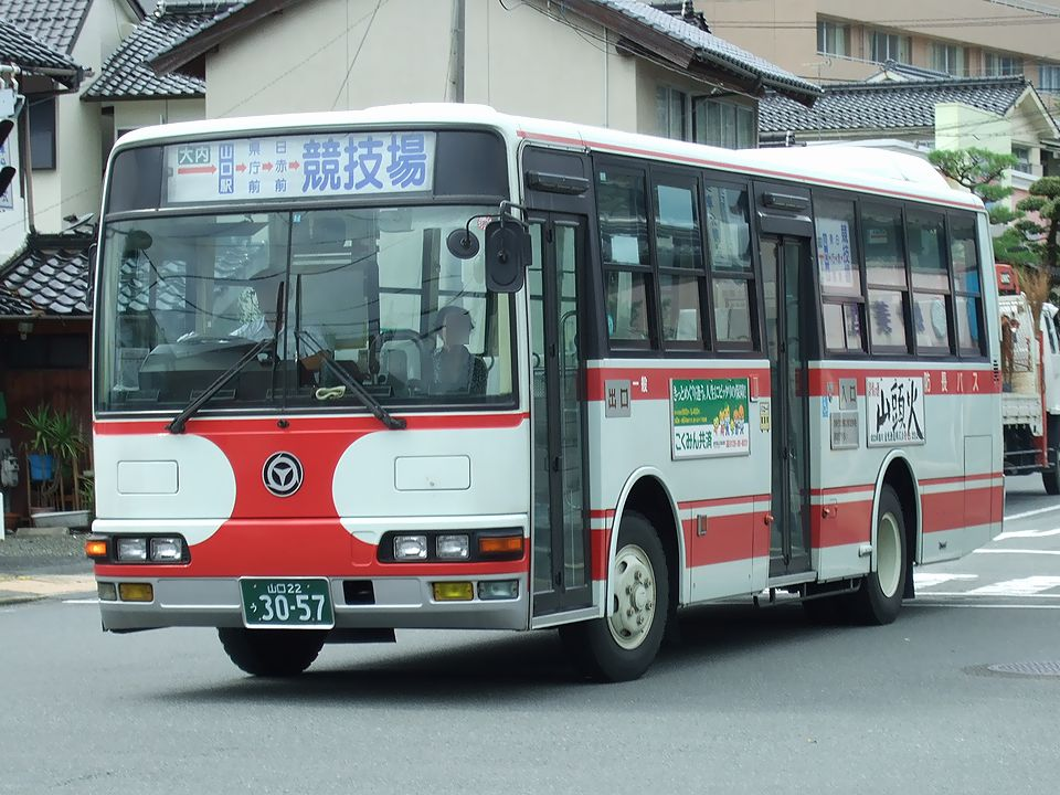 Company:Bocho Kotsu Use:transit bus Belongs to:Yamaguchi depot Car license:山口22 う 3057 Chassis manufacturer:Mitsubishi Motors Coachbuilder:Mitsubishi FUSO Bus Manufauturing Location:at Nisseki Iriguchi intersection, Yamaguchi City, Yamaguchi, Japan.